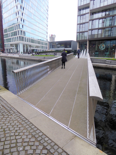 The Fan Bridge, Paddington Basin